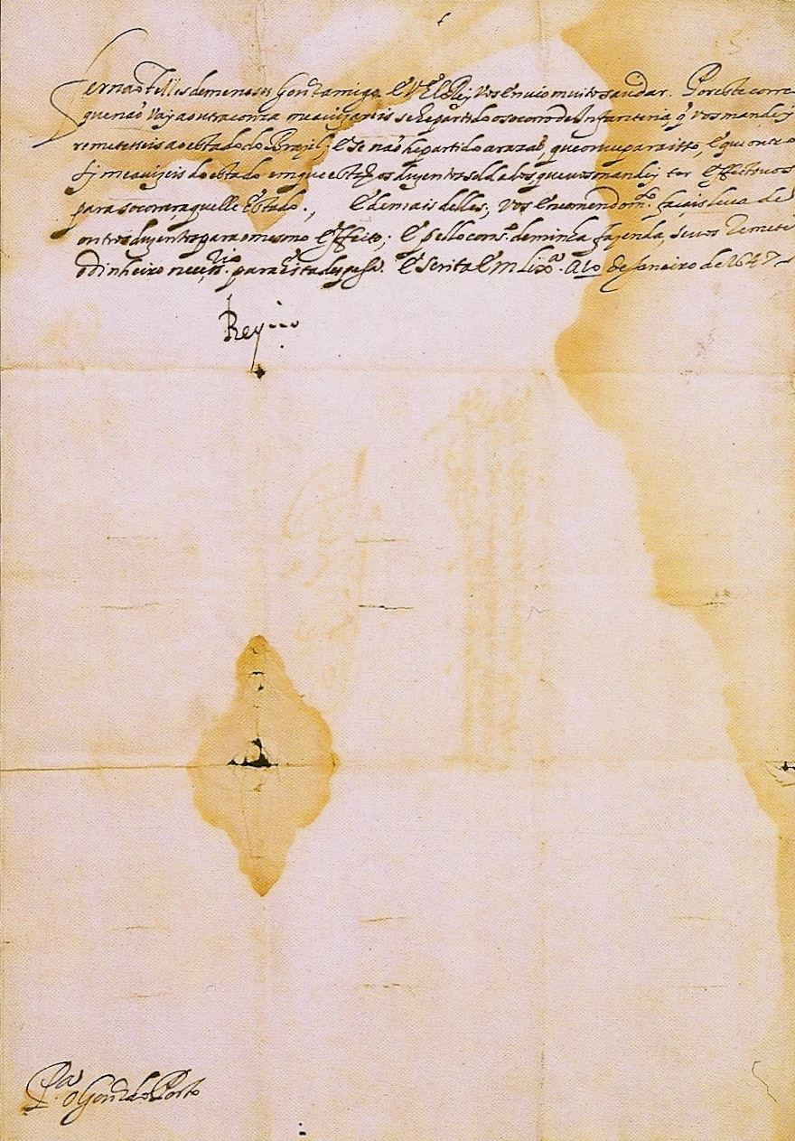 An extremely rare manuscript letter signed by John IV of Portugal, written in Lisbon and dated January 20th, 1647. It refers to the decision of the King of Portugal to send to Recife a reinforcement of 200 men to assist the expulsion of the Dutch. A key-document for the preparations of the Guararapes battle. Ricardo Brennand Institute collection, Recife, Brazil.